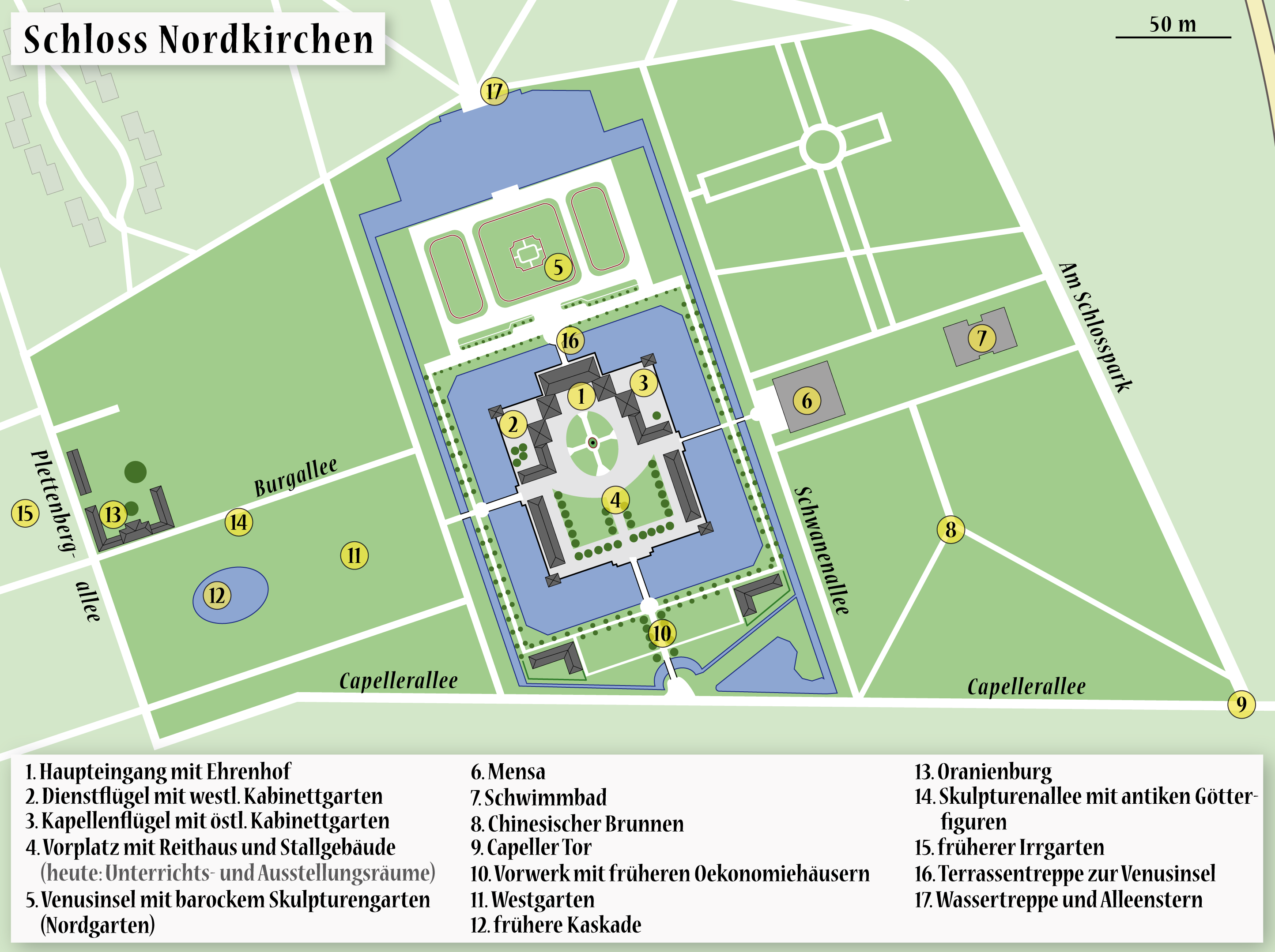 Map of the Schloss Nordkirchen (castle—palace) and Schlosspark Nordkirchen (landscape garden park) — located in Nordkirchen, Westphalia (Germany). The Venusinsel (Baroque sculpture garden) is #5.